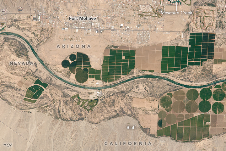 Looking down on the desert vistas of the southwestern United States, an astronaut took this photograph of a short section of the Colorado River. This reach of the river is marked by dark-toned agricultural fields, both rectangular and round, restricted to the narrow zone of arable land on the floodplain close to the river. For scale, the larger crop circles are 750 meters in diameter. Note that from the astronaut’s perspective here, north is to the left. The towns of Fort Mohave and Mesquite Creek are more difficult to see and occupy slightly higher ground—separated from the floodplain by steep bluffs that appear along the lower margin of the image. This area lies within the Fort Mojave Indian Reservation; it is also where the state boundaries of Arizona, Nevada, and California meet. The Mojave people have leased much of the reservation to agribusinesses for cultivation of commodity crops such as alfalfa, corn, and soybeans. This has led to an influx of non-native people, such that the Mojave now make up less than half of the population of the reservation.